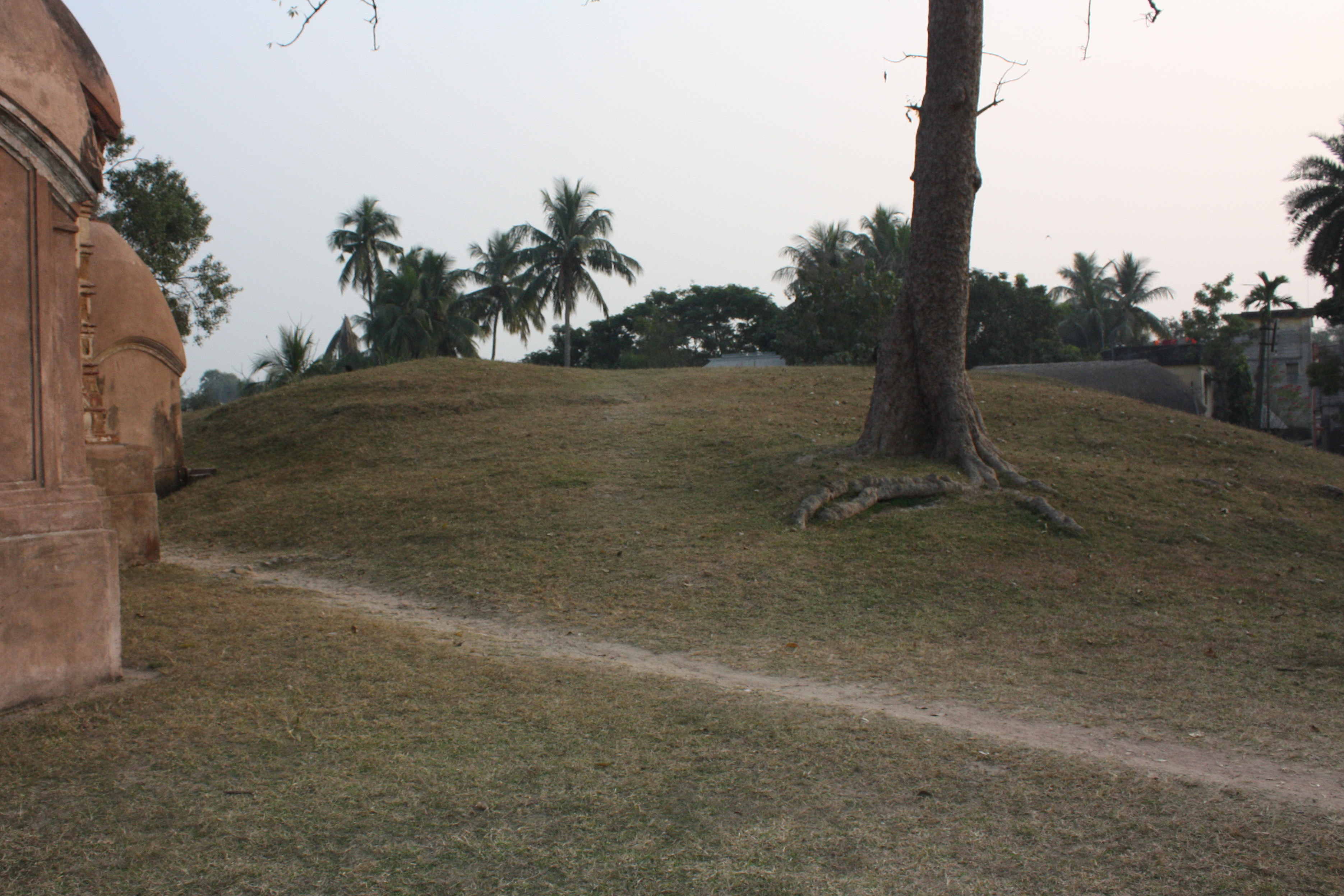 Chandidas Bhita Pic:Sourav Niyogi.